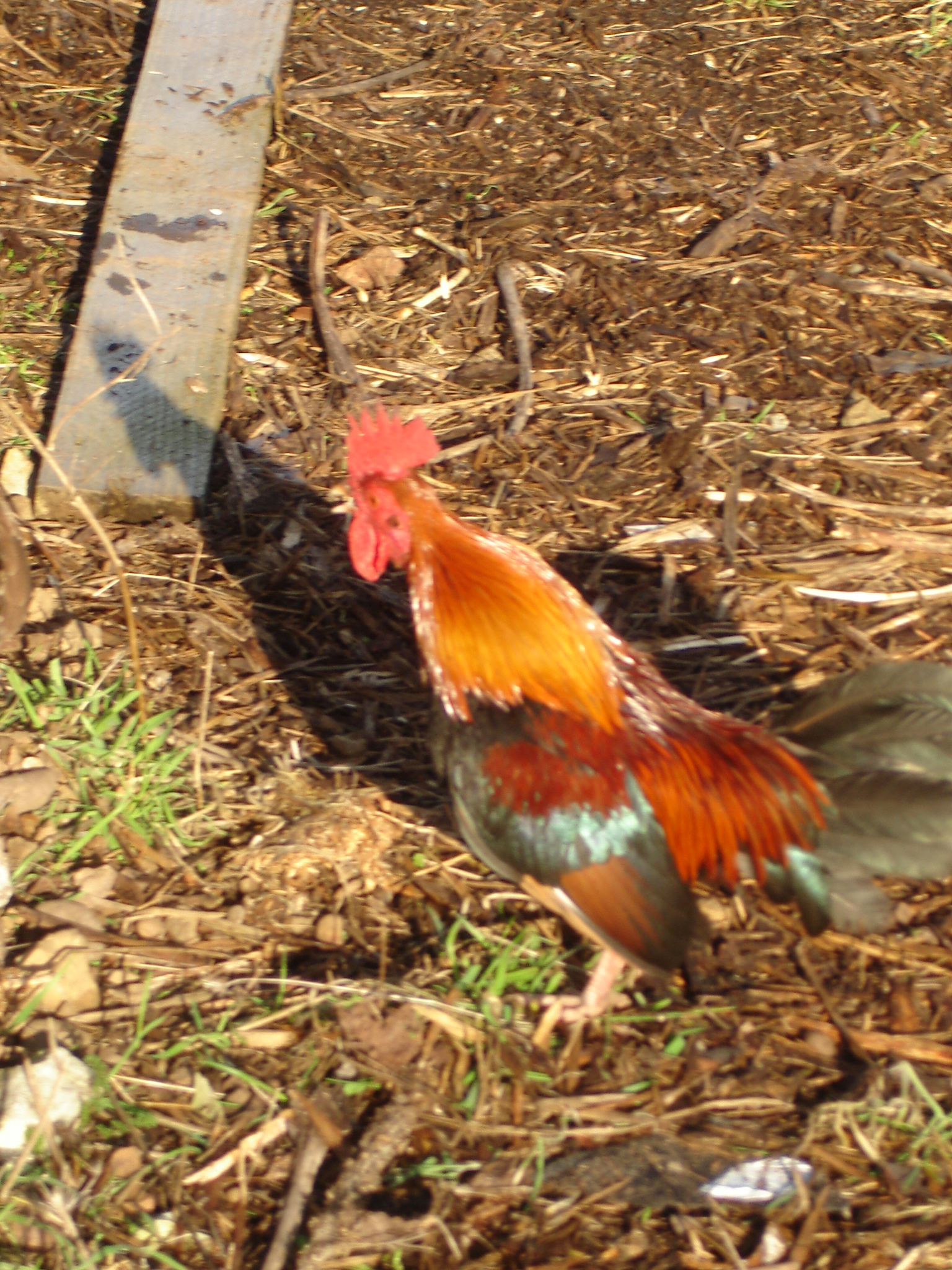 A Black Breasted Red Old English Game Bantam Rooster crowing.